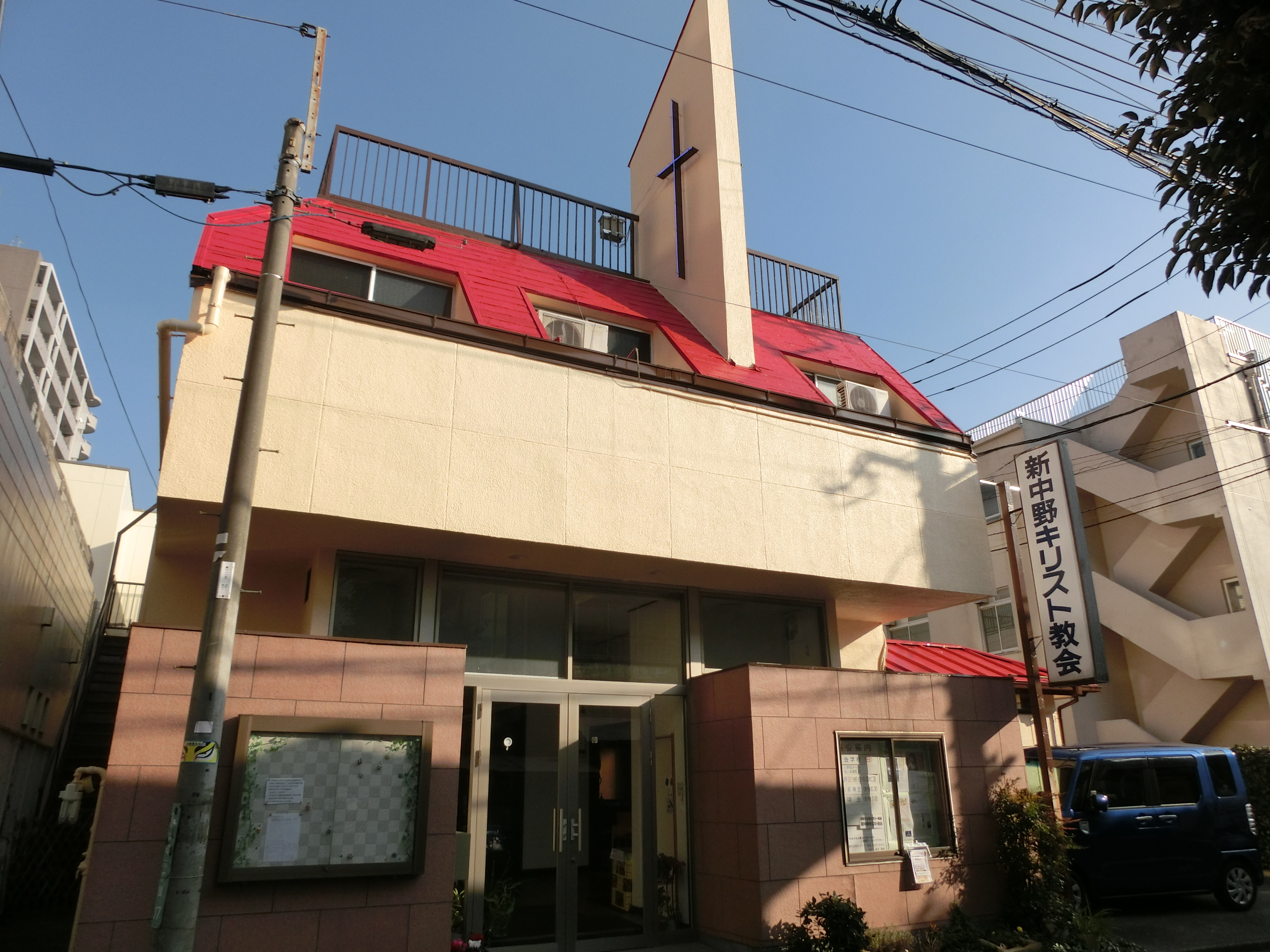 Shin-Nakano Christ Church